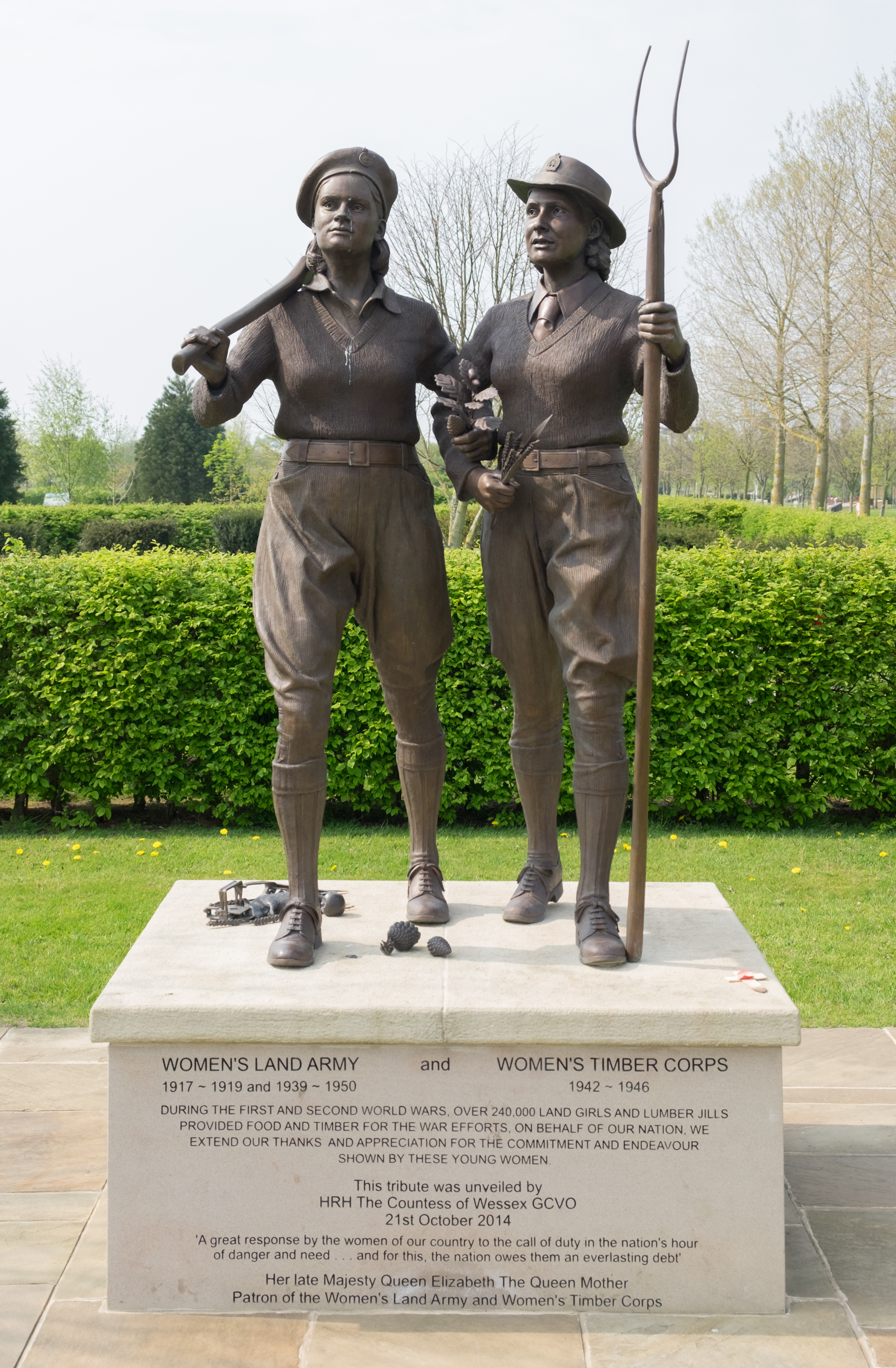 Women's Land Army and Women's Timber Corps memorial at the National Memorial Arboretum, Arlewas, Staffordshire